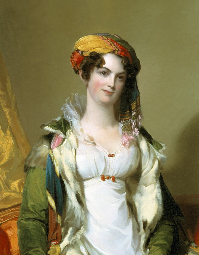 Mrs. Robert Gilmor, Jr. (Sarah Reeve Ladson), oil on canvas painting by Thomas Sully, 1823